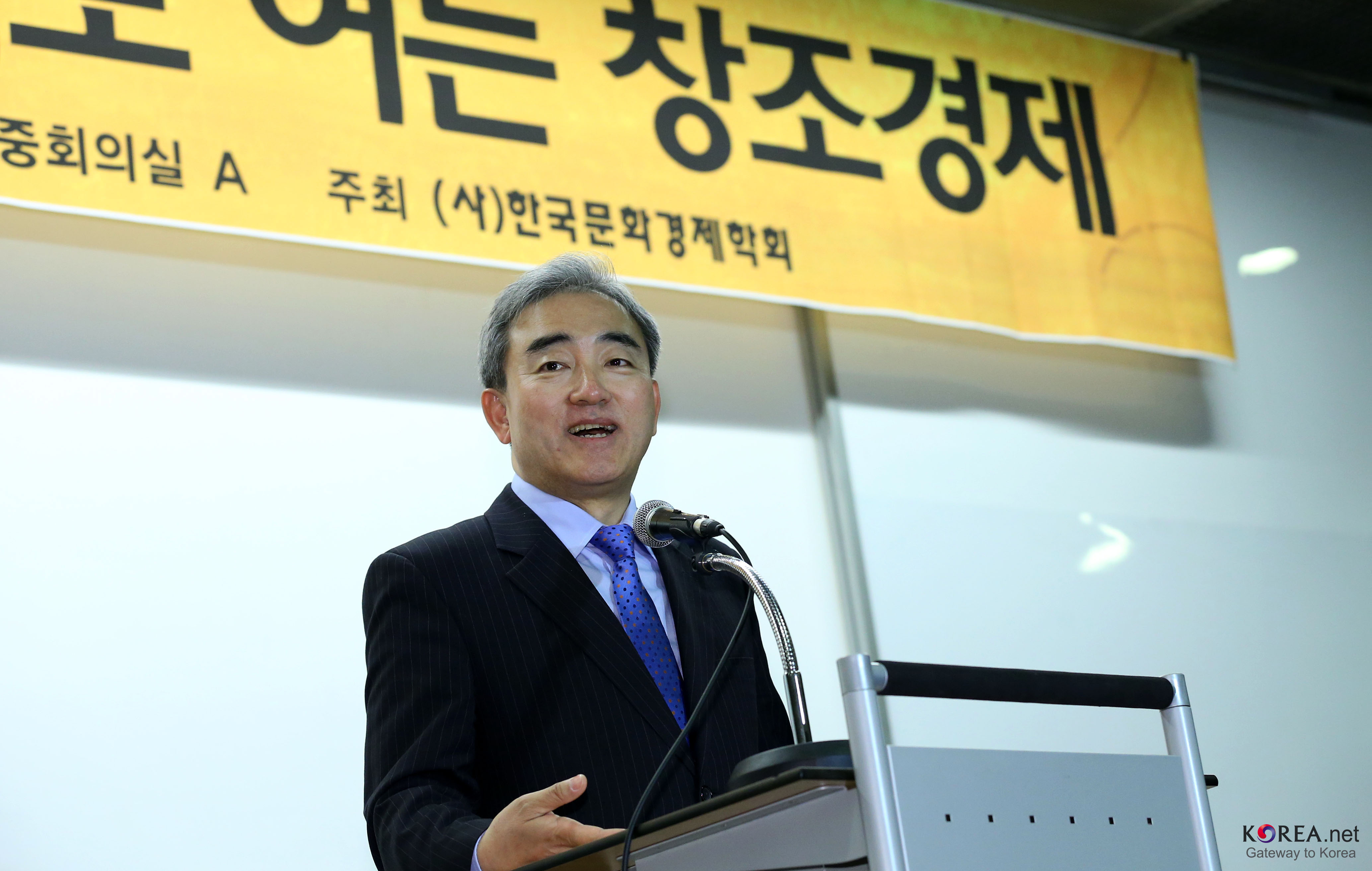 Panel discussion 'Opening a creative economy with culture' Minister of Culture, Sports and Tourism Yoo Jinryong delivers an address at a discussion meeting on strategies for realizing a creative economy held in Seoul on April 25 The Korea Chamber of Commerce & Industry, Seoul 2013.04.25. (Related Article) 'Culture to lead creative economy' Ministry of Culture, Sports and Tourism Korean Culture and Information Service Jeon Han 창조경제 실천 전략 토론회 '문화로 여는 창조경제 문화체육관광부 유진룡 장관이 축사를 하고 있다. 대한상공회의소, 서울 문화체육관광부 해외문화홍보원 코리아넷 전한